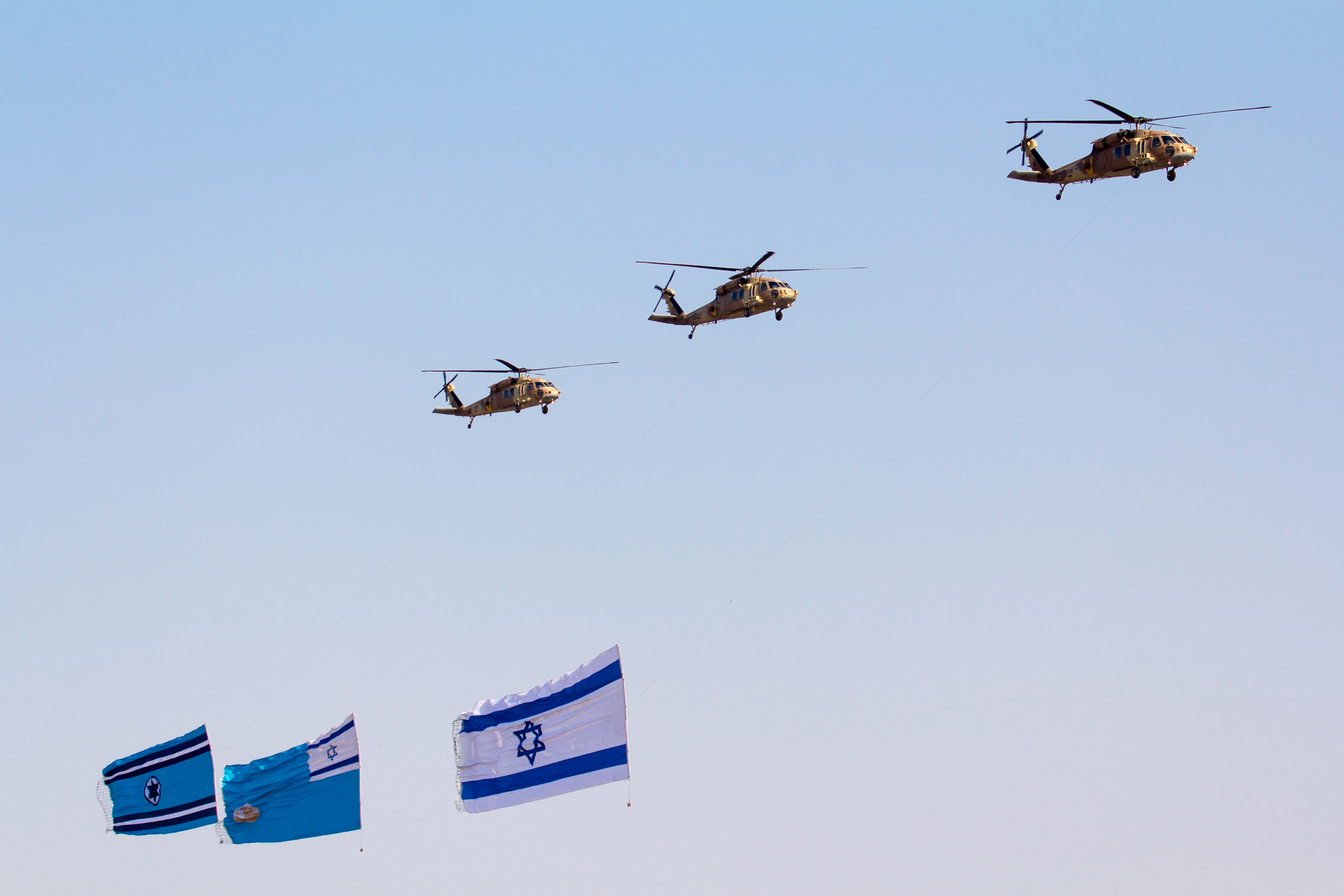 Israeli Air Force 123 Squadron UH-60 Blackhawks trailing the Israeli, IDF and Israeli Air Force flags